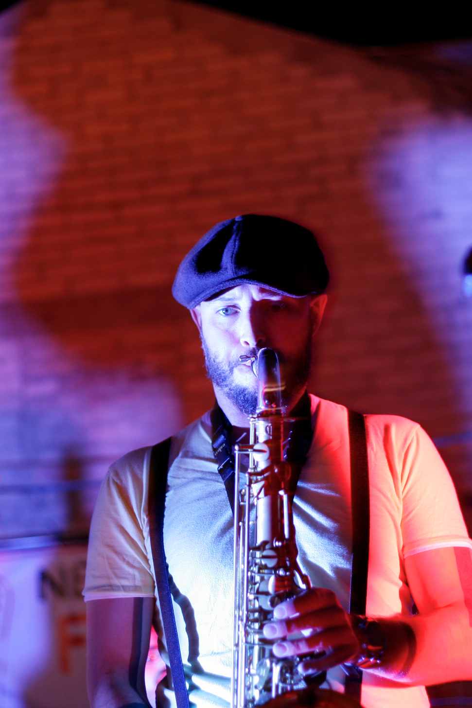 Tommy Marth performs live in 2011